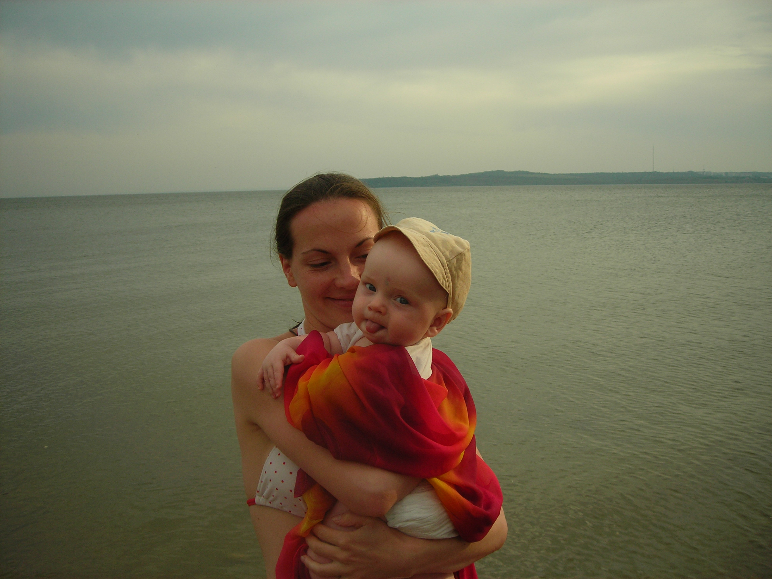 Mother and a child